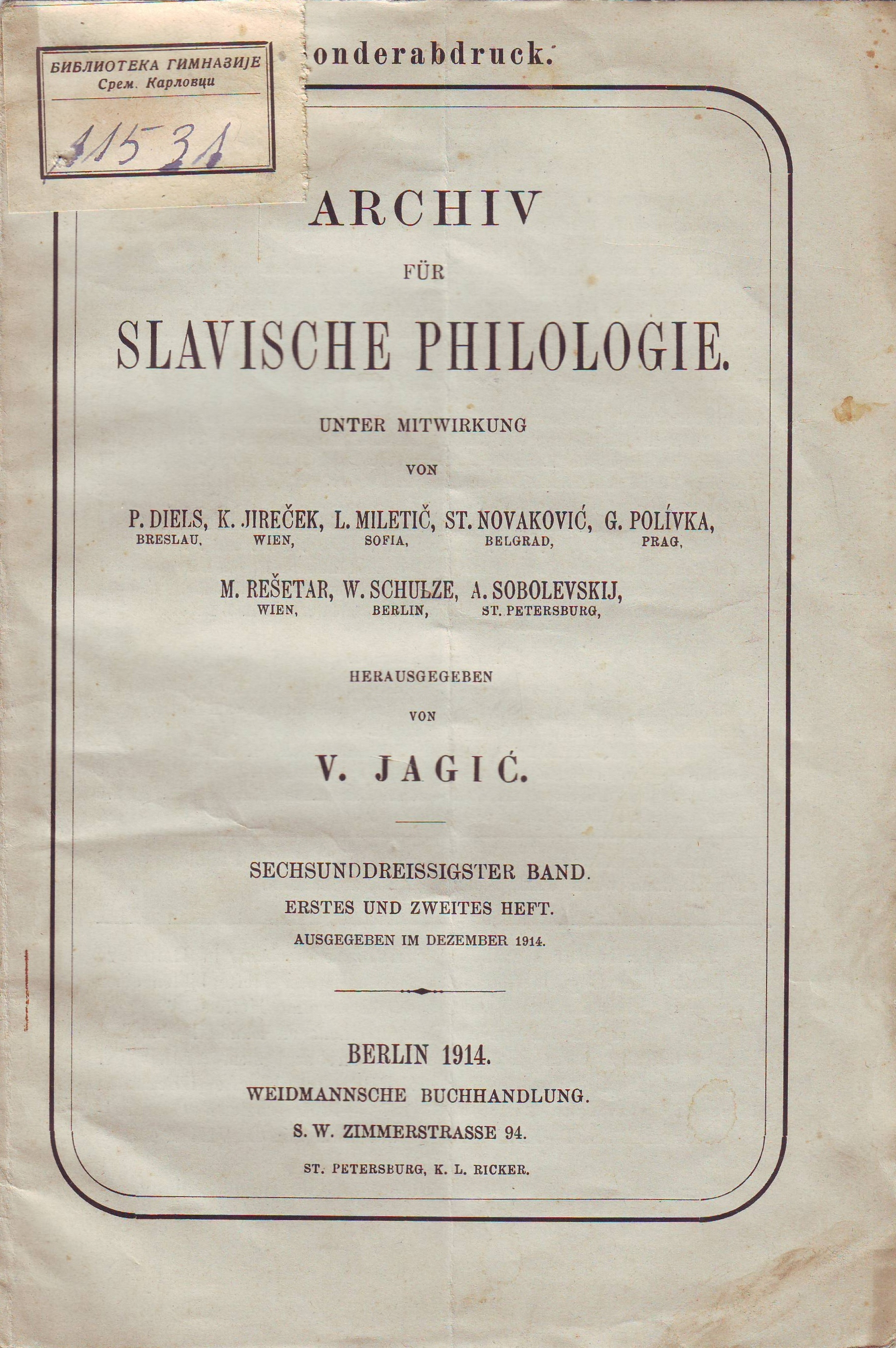 Cover of the Archive for Slavic Philology (Archiv für slavische Philologie), a Slavic philological journal in German. Srpski (latinica): Naslovna strana Arhiva za slovensku filologiju (Archiv für slavische Philologie), slavističkog filološkog časopisa na nemačkom jeziku.